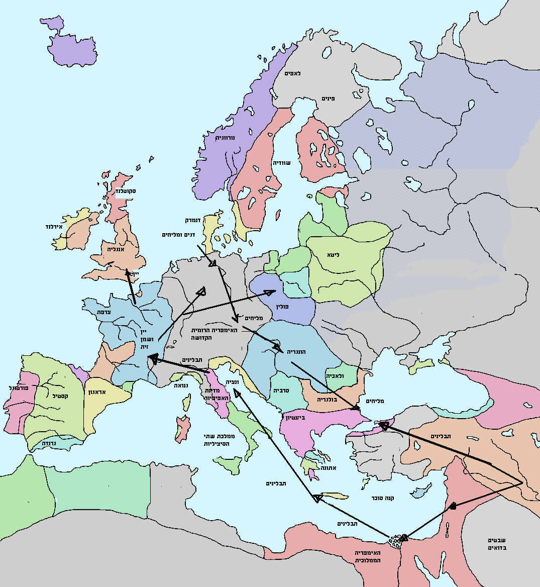 A chart showing food trade in Europe in the 14th century